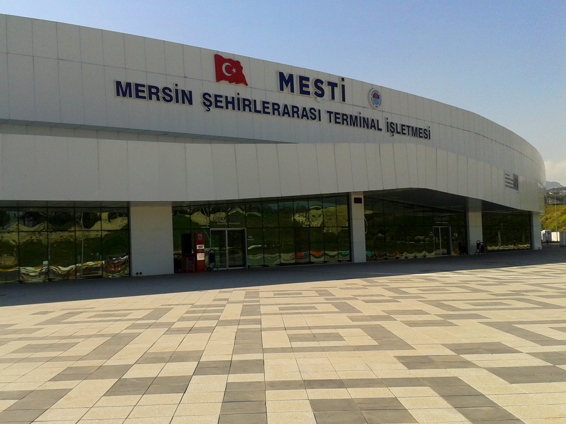 Mersin Bus Station Passenger entrance